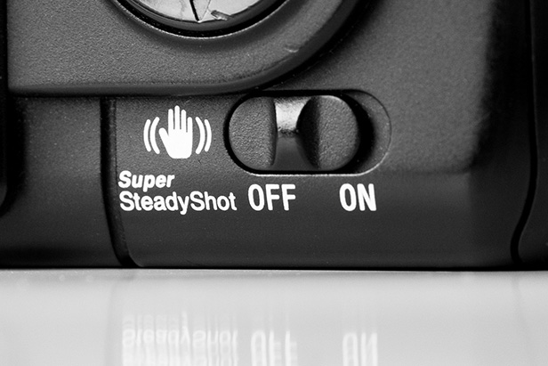 Super SteadyShot switch on Sony Alpha 200